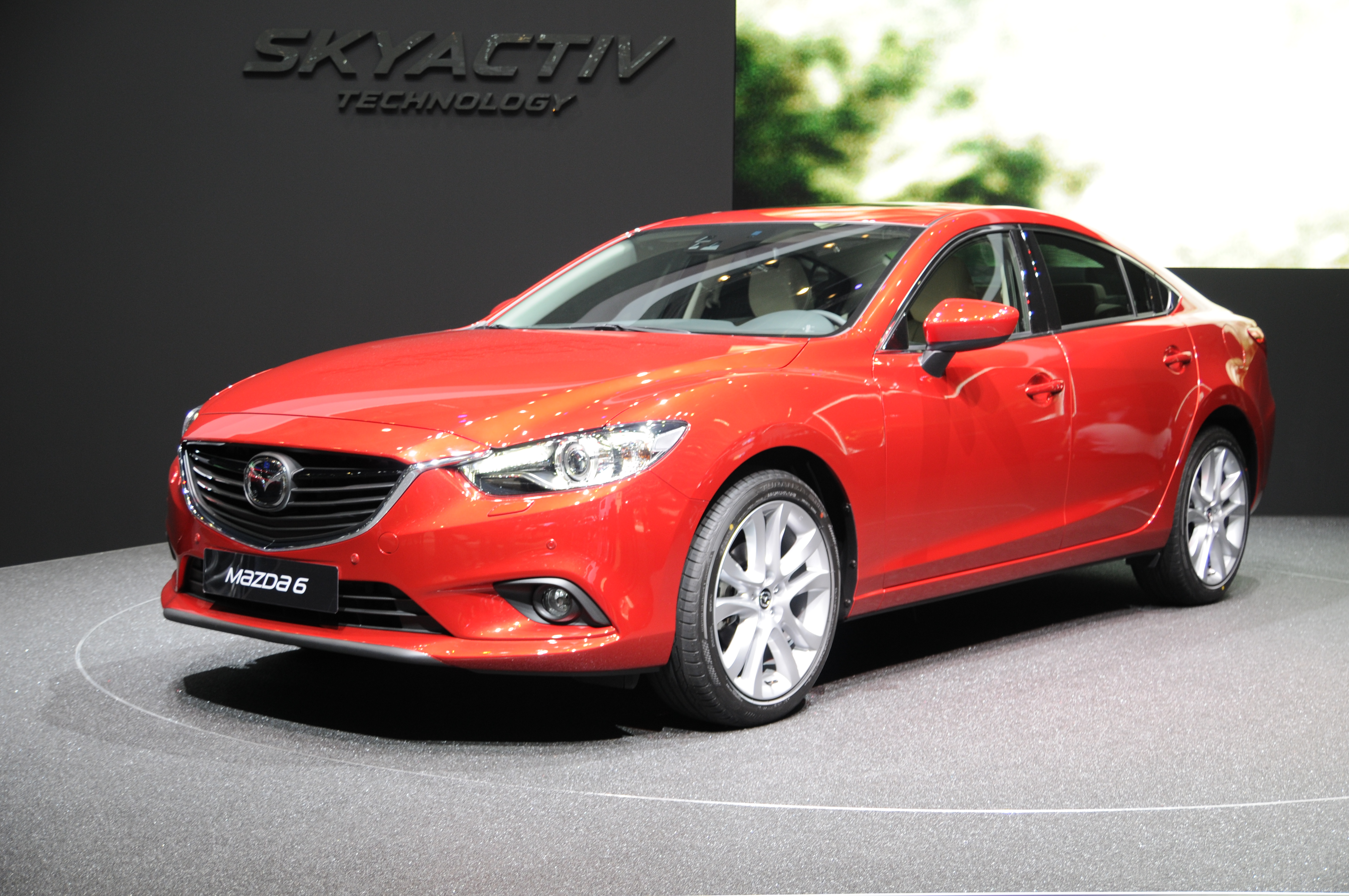 Geneva Motor Show 2013 (photos taken on the first press day)